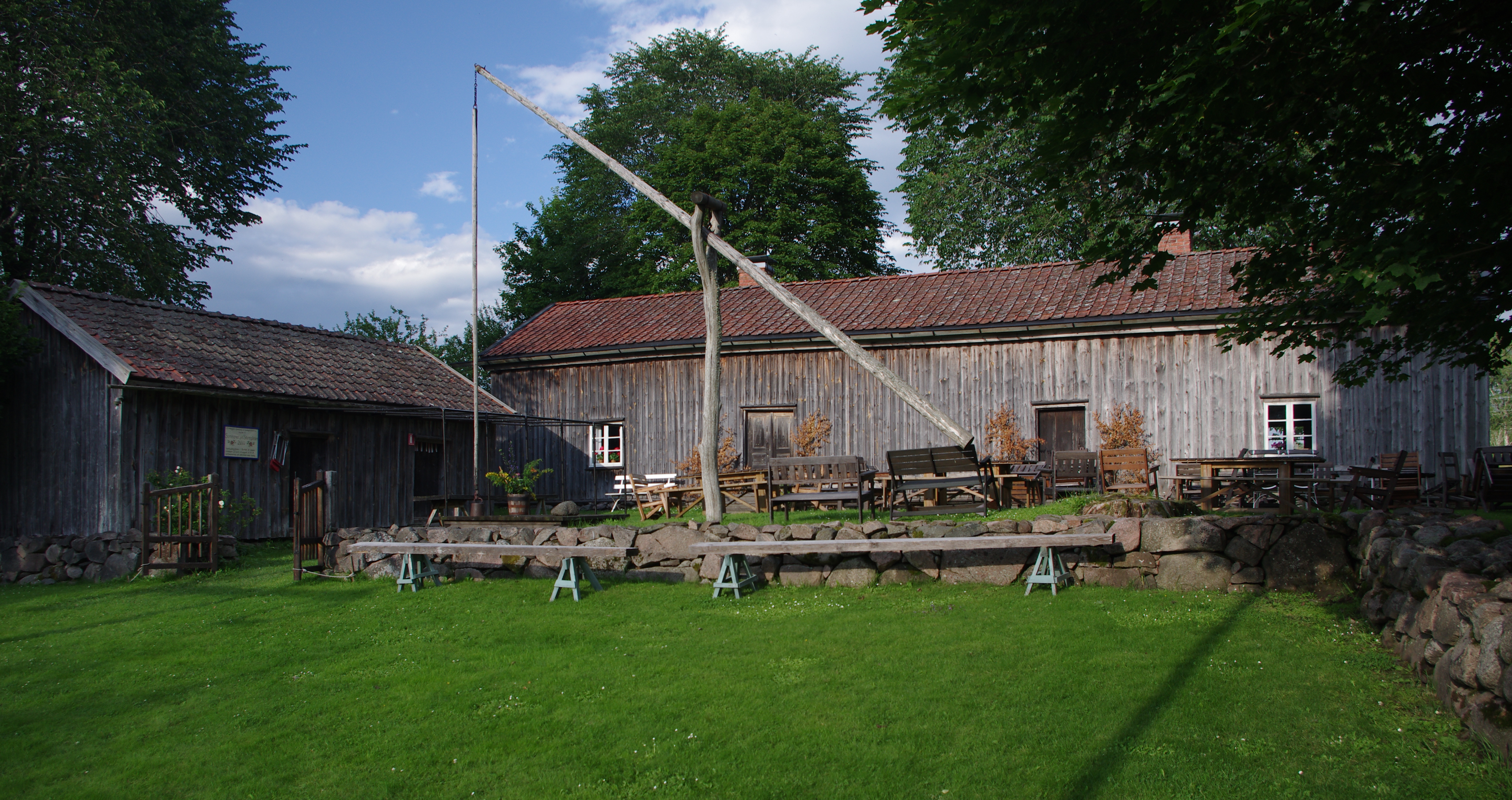 Suntak village in Tidaholm municipality, Sweden